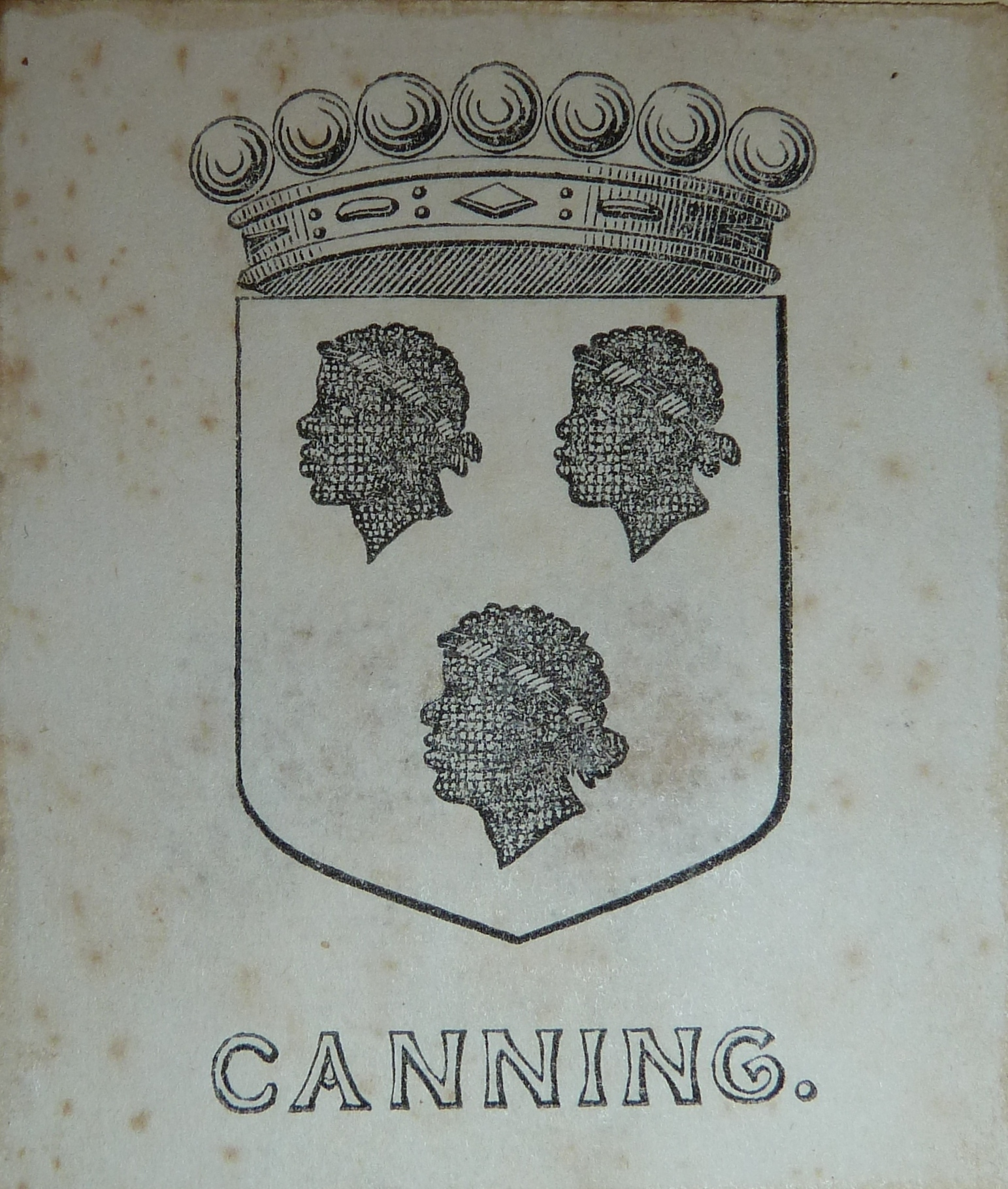 Iconclass Code = 31A221(+31) Penn Libraries call number: EC85 D9217 858tb Flickr data on 2011-08-12: Camera: Panasonic DMC-ZS5 Tags: EC85 D9217 858tb, Armorial bookplates, English Culture Class Collection, Culture Class Collection, Penn Libraries, Bookplates, Provenance, Stratford de Redcliffe, Stratford Canning, Viscount, 1786-1880 License: CC BY 2.0 User: kladcat